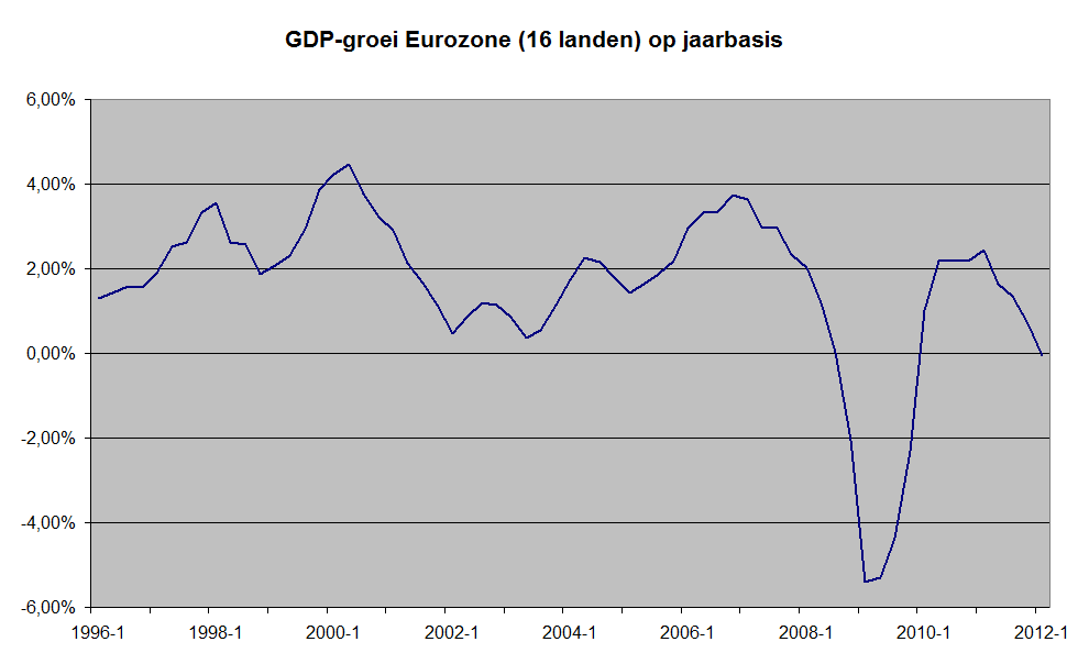 Development of gross domestic product in the Eurozone. Source: website ECB, query ESA.Q.I5.S.0000.B1QG00.1000.TTTT.L.U.R. Used on Kredietcrisis